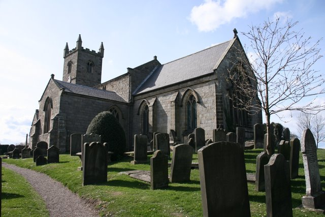 Whittingham Parish Church This is a fascinating church yard with quite a few 18th Century Memento Mori grave stones. This photograph was taken on an afternoon when I visited the village school which is very close to the church.